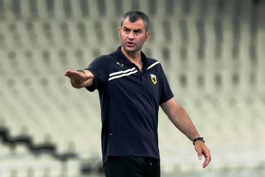 dellas coach Other information no